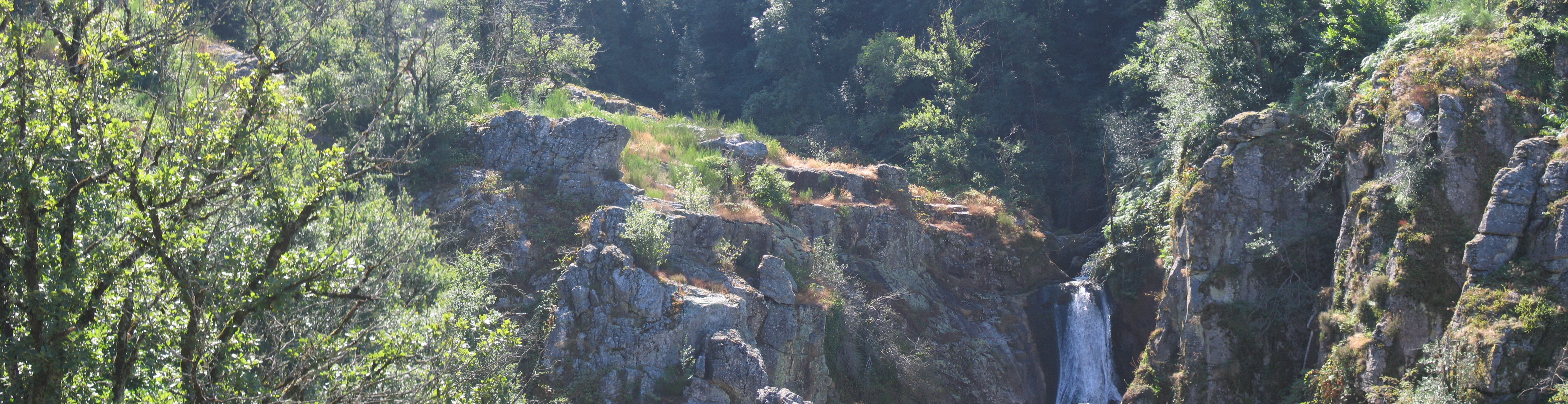 Panorama Arifat Falls